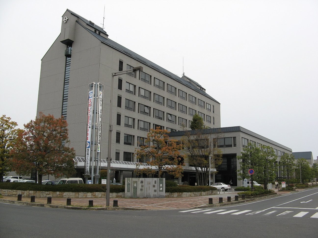 Kusatsu City Hall in Shiga Prefecture, Japan